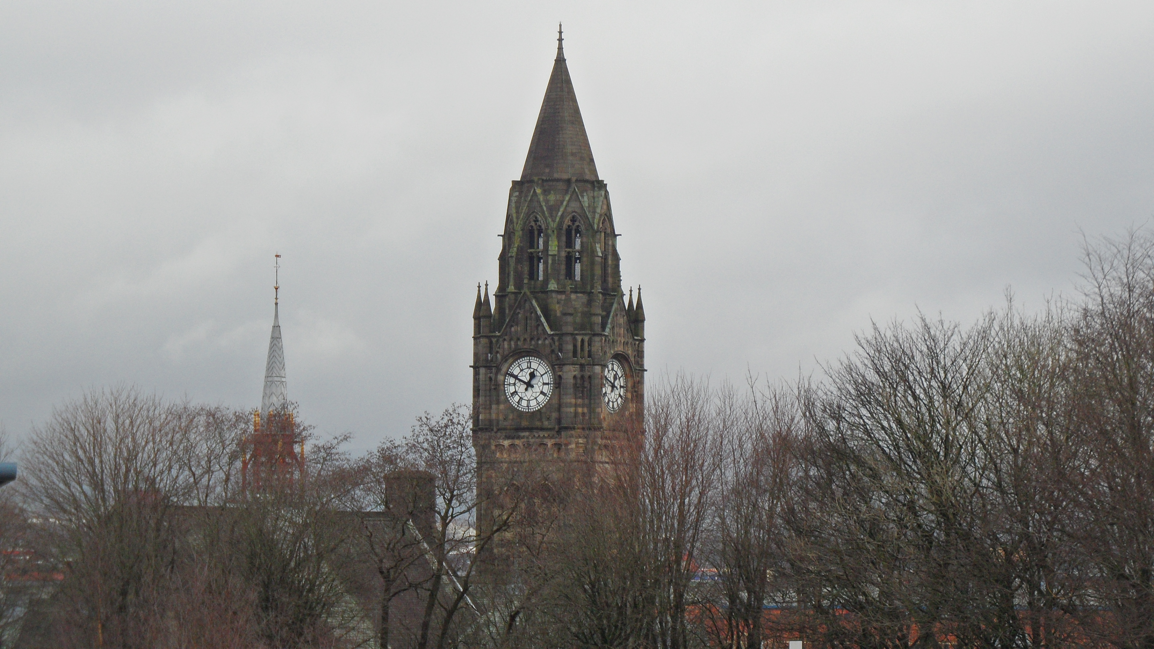 Rochdale Town Hall - Clock Tower